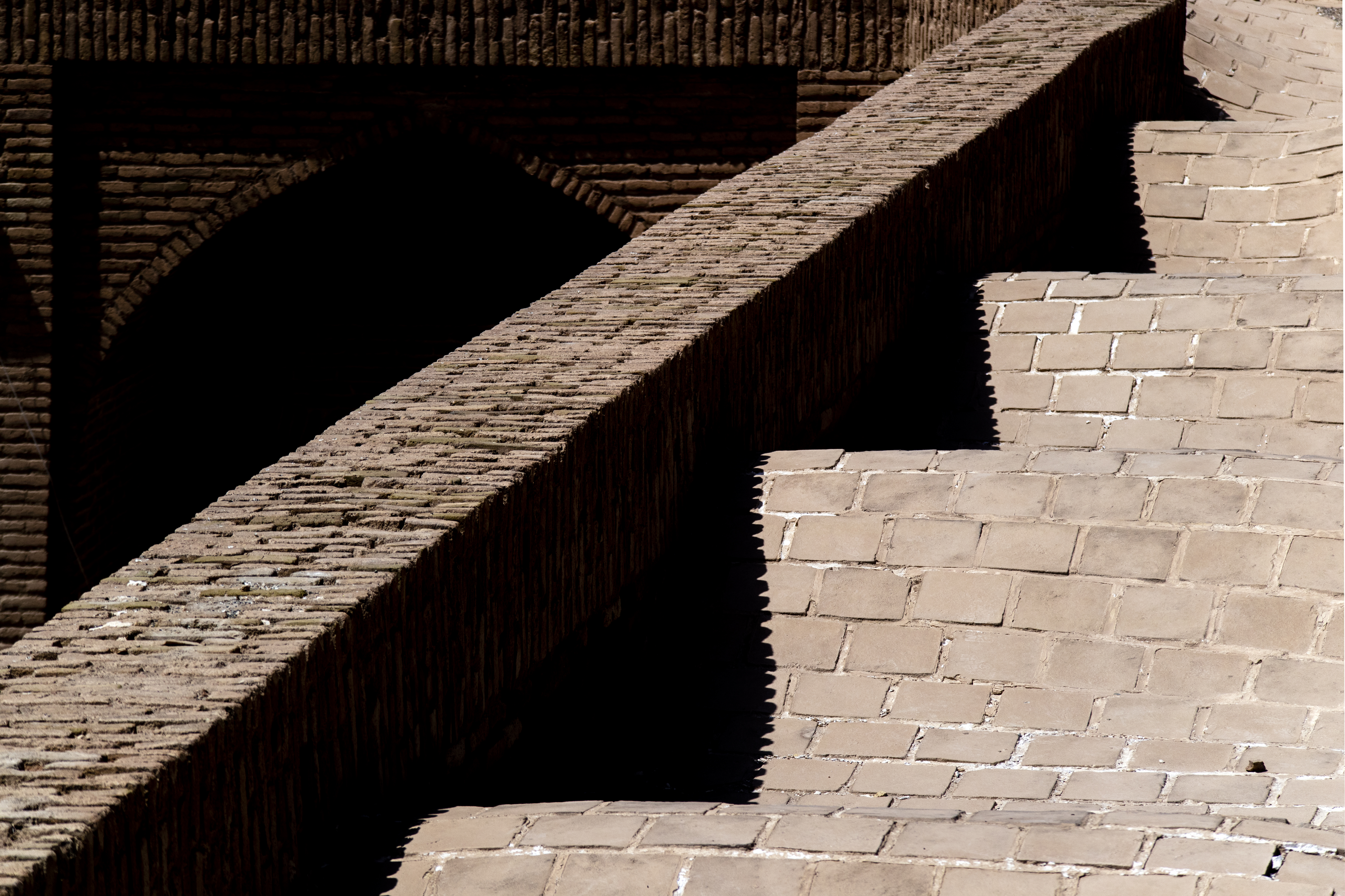 Deir-e Gachin Caravansarai is one of the greatest caravansarais of Iran which is located in the center of Kavir National Park. Its unique qualities is the reason it is called “Mother of Iranian Caravansarais”. It is located in the Central District of Qom County, 80 kilometers north-east of Qom (60 kilometers into Garmsar Freeway) and 35 kilometers south-west of Varamin. (Photo by: Mostafa Meraji, wiki loves monuments 2018)